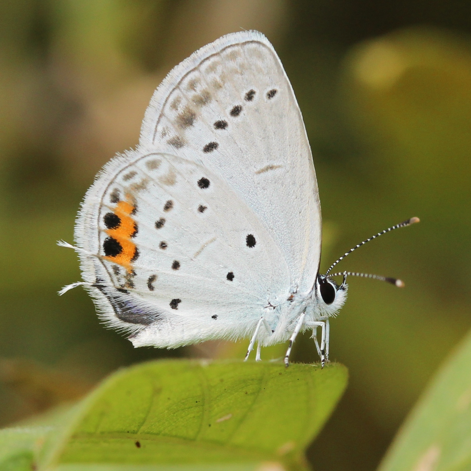 Short-tailed Blue (Everes argiades (Pallas, 1771) ), in Japan.